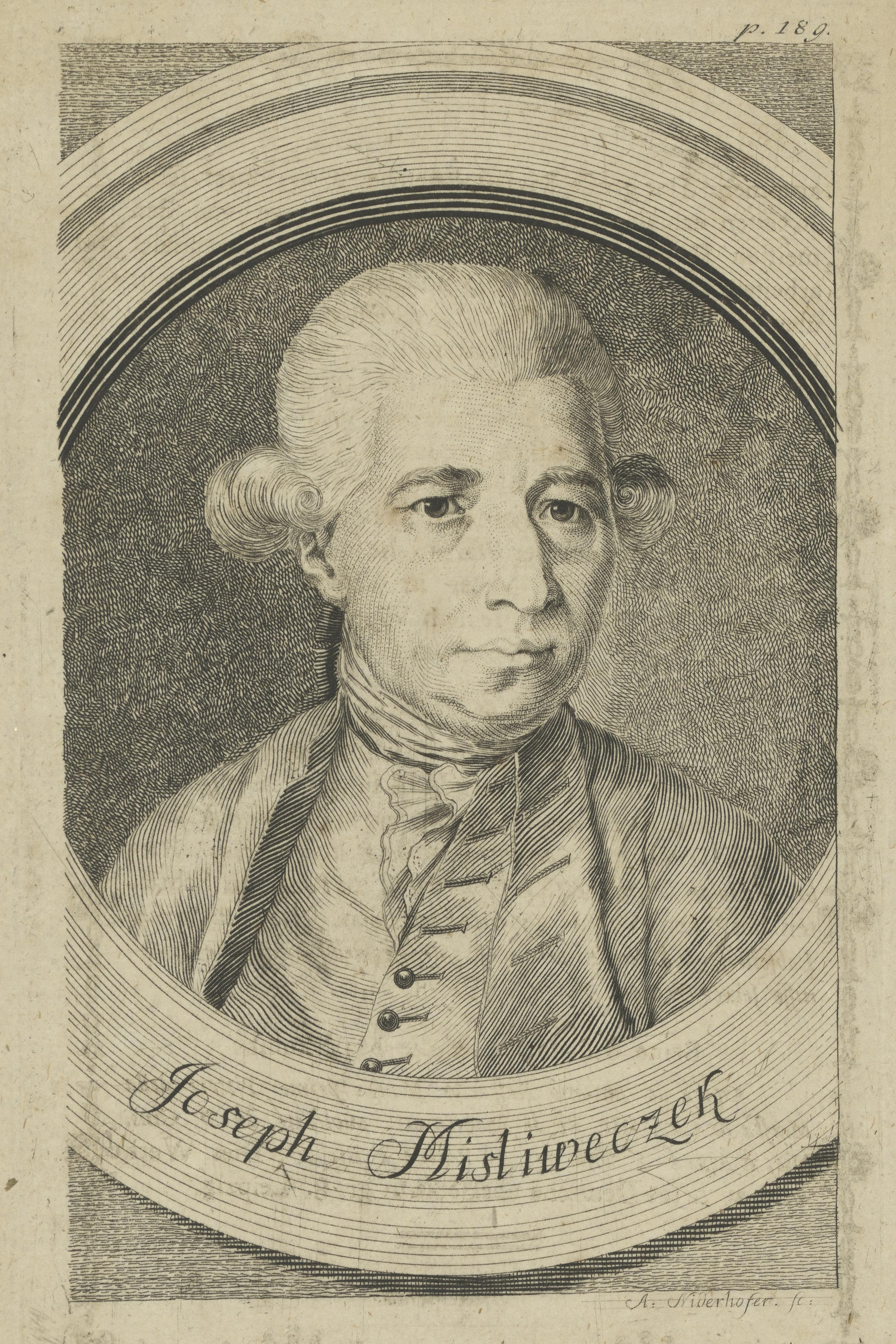 Depicted person: Josef Mysliveček